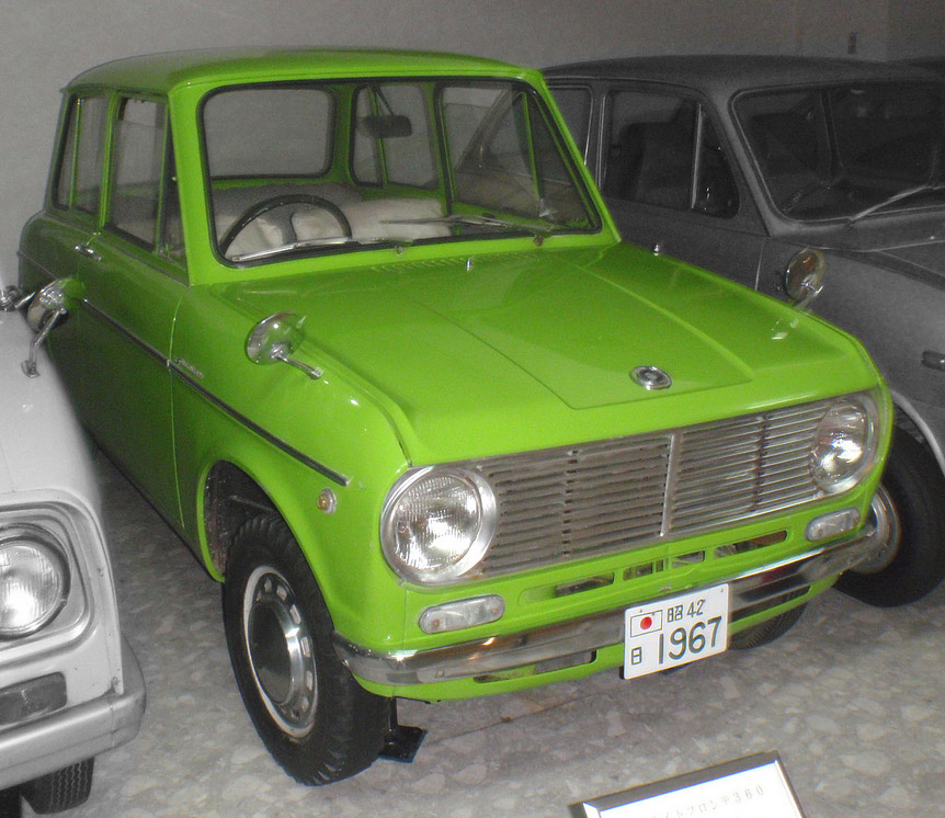 1967 Suzulight Fronte at the Motorcar Museum of Japan